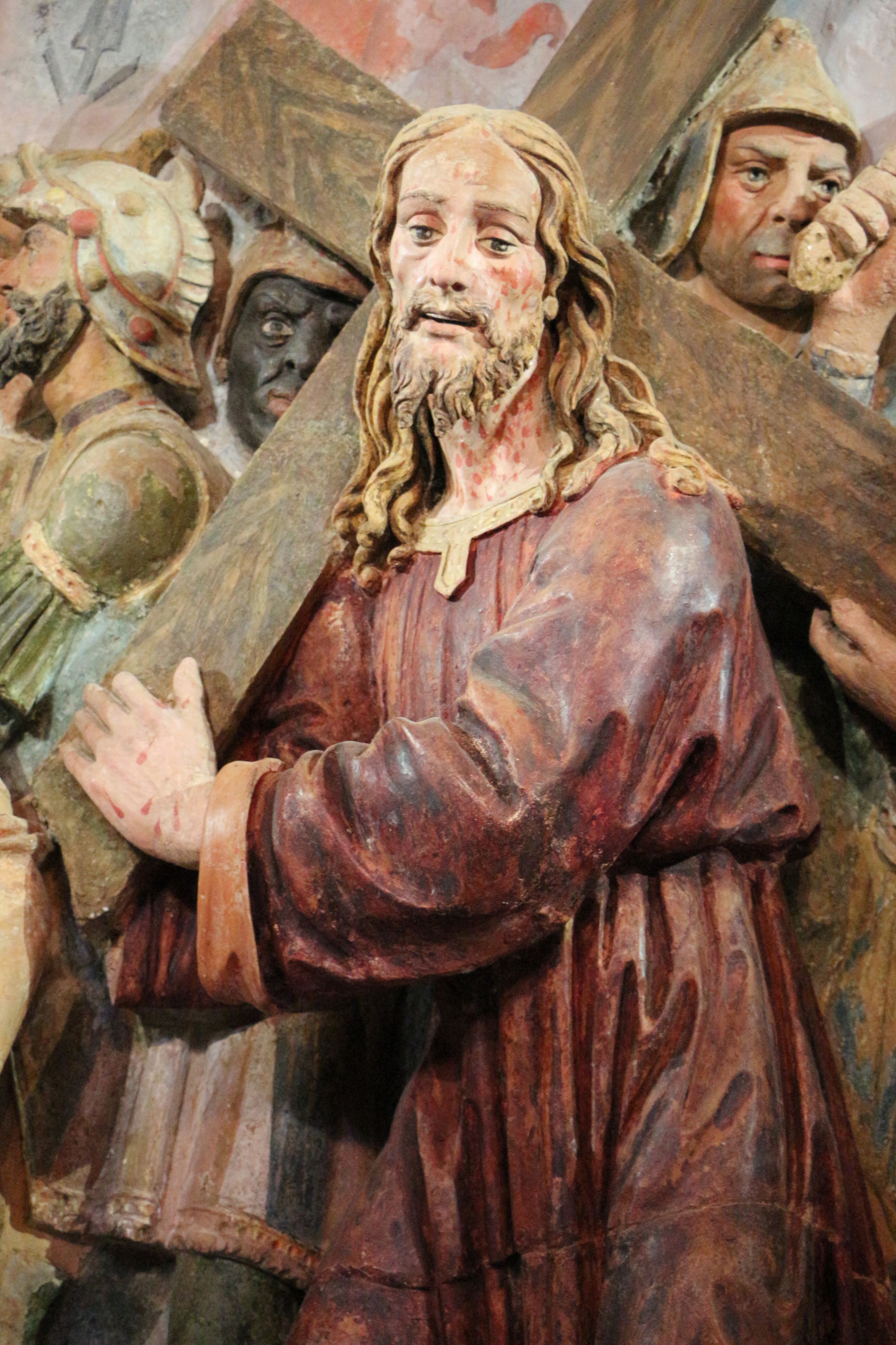 San Vivaldo Sacro Monte